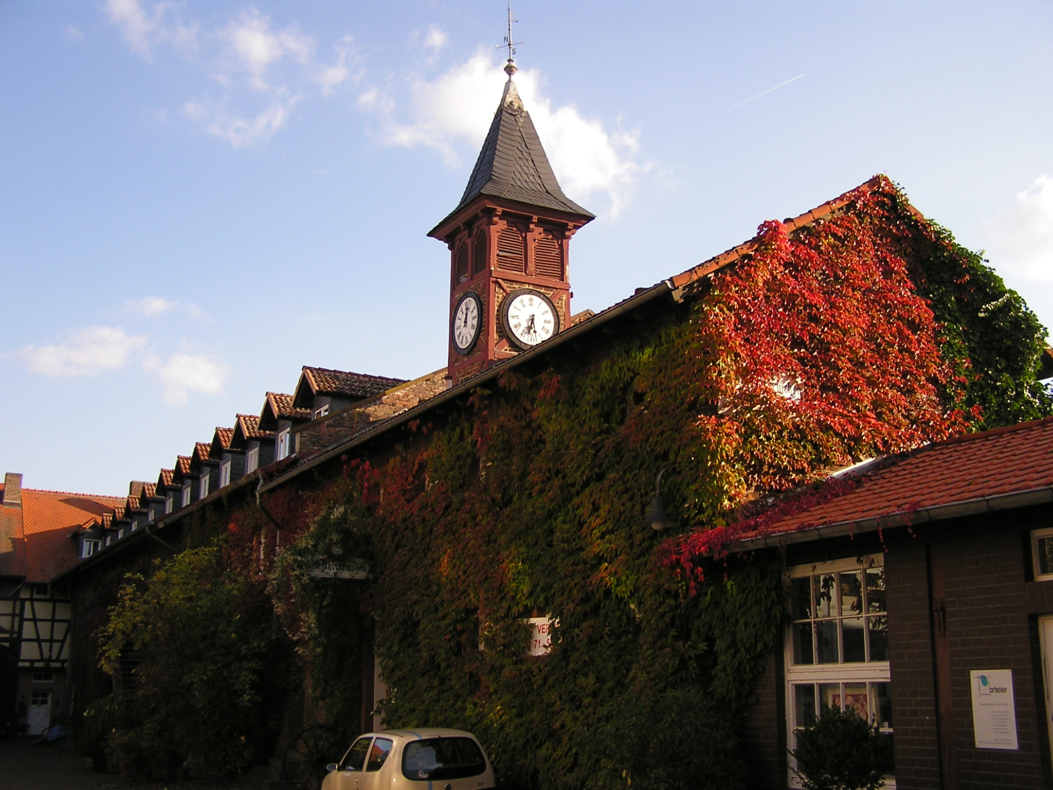 Institut Garnier in Friedrichsdorf (ancestor of the Philipp Reis School), building with clock tower